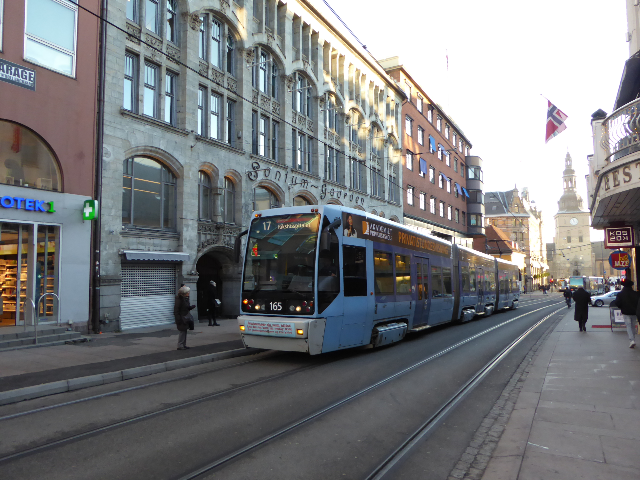 Oslo tram line 17 at temporary tram stop on Grensen in Oslo. In the background at the right Oslo Domkirke can be seen.